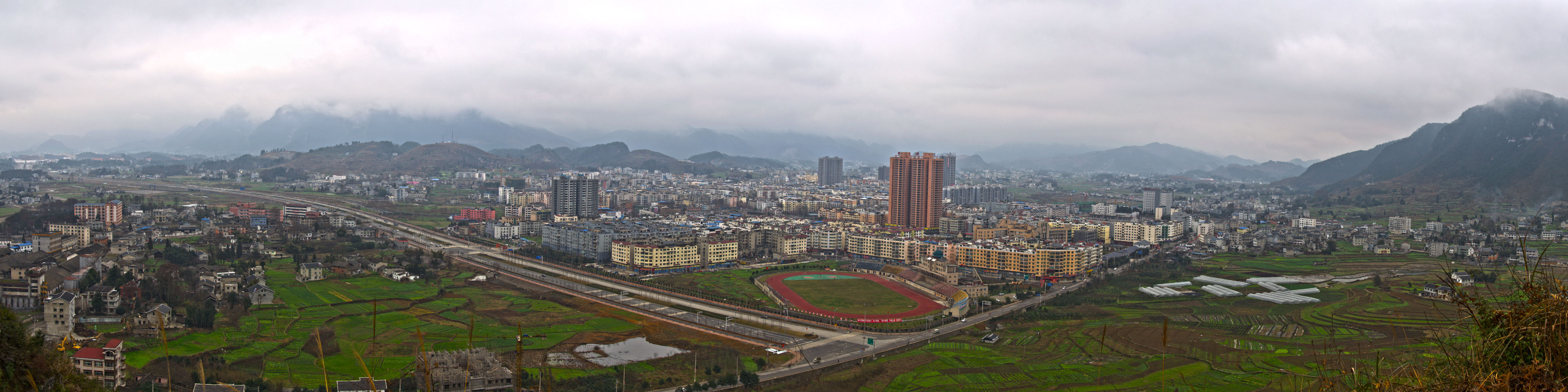 Panorama of Suiyang (Guizhou Province, China) from the hill Yankong.